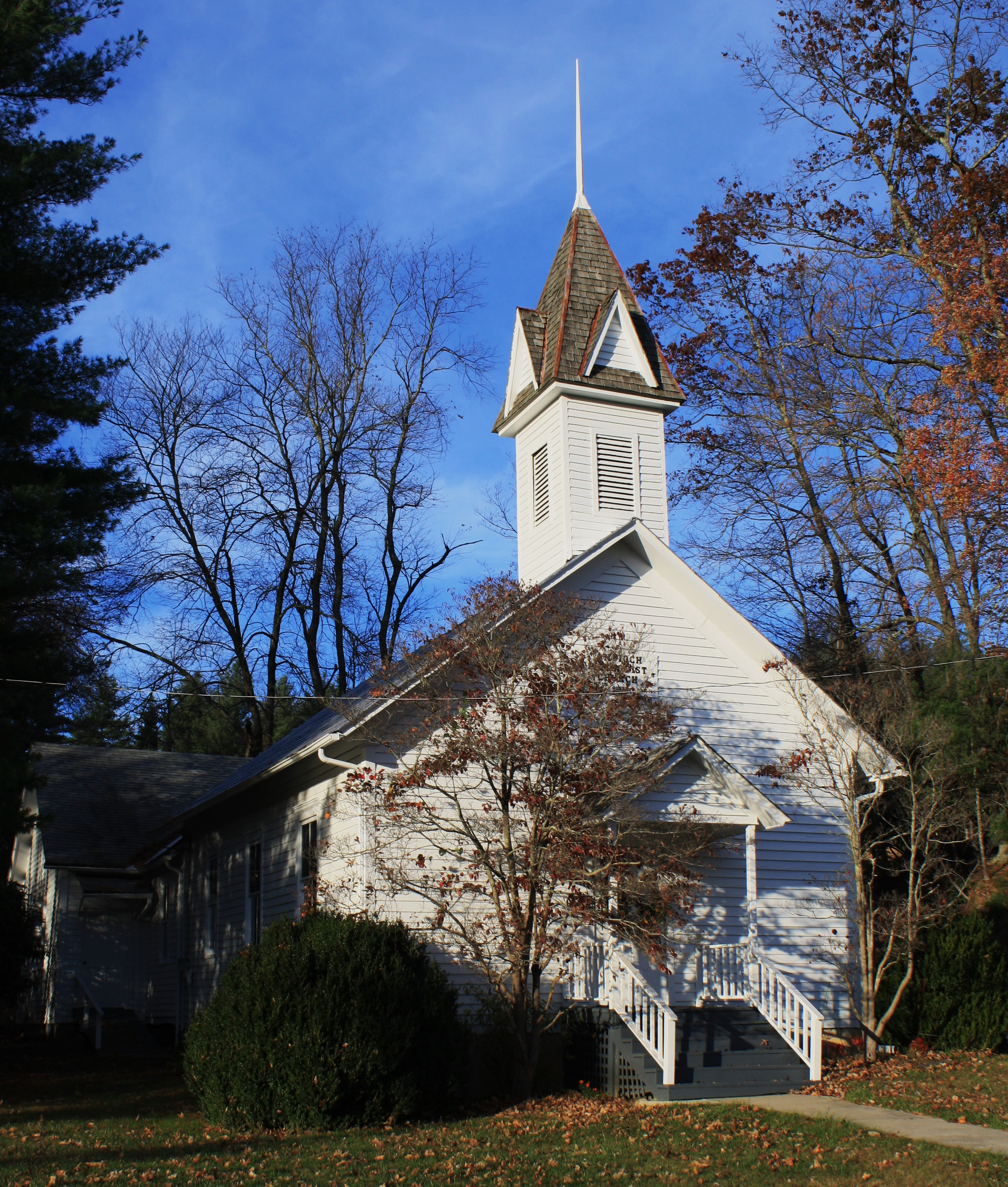 Antioch United Methodist Church (Roaring Gap, North Carolina) of Roaring Gap, Alleghany County, North Carolina, United States of America. Photograph taken by User:Willthach